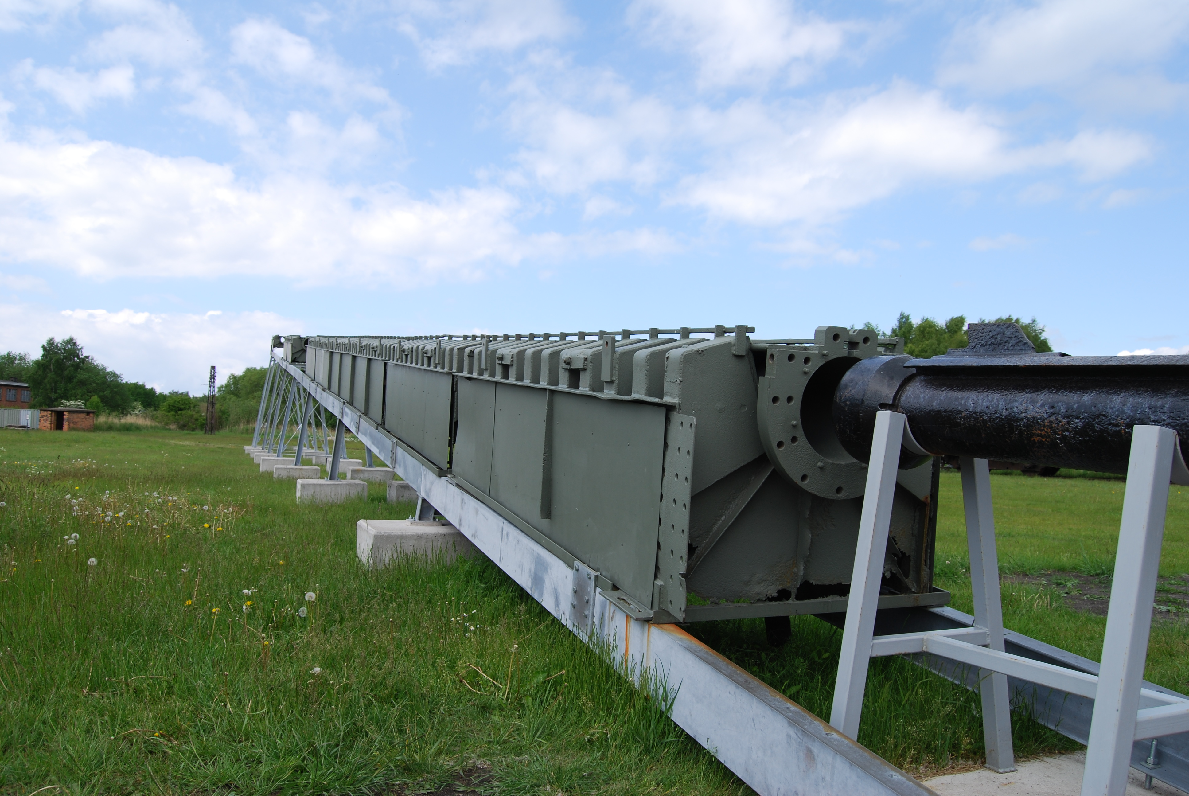 V-1 rocket in Historisch-technisches Informationszentrum Peenemünde, Germany